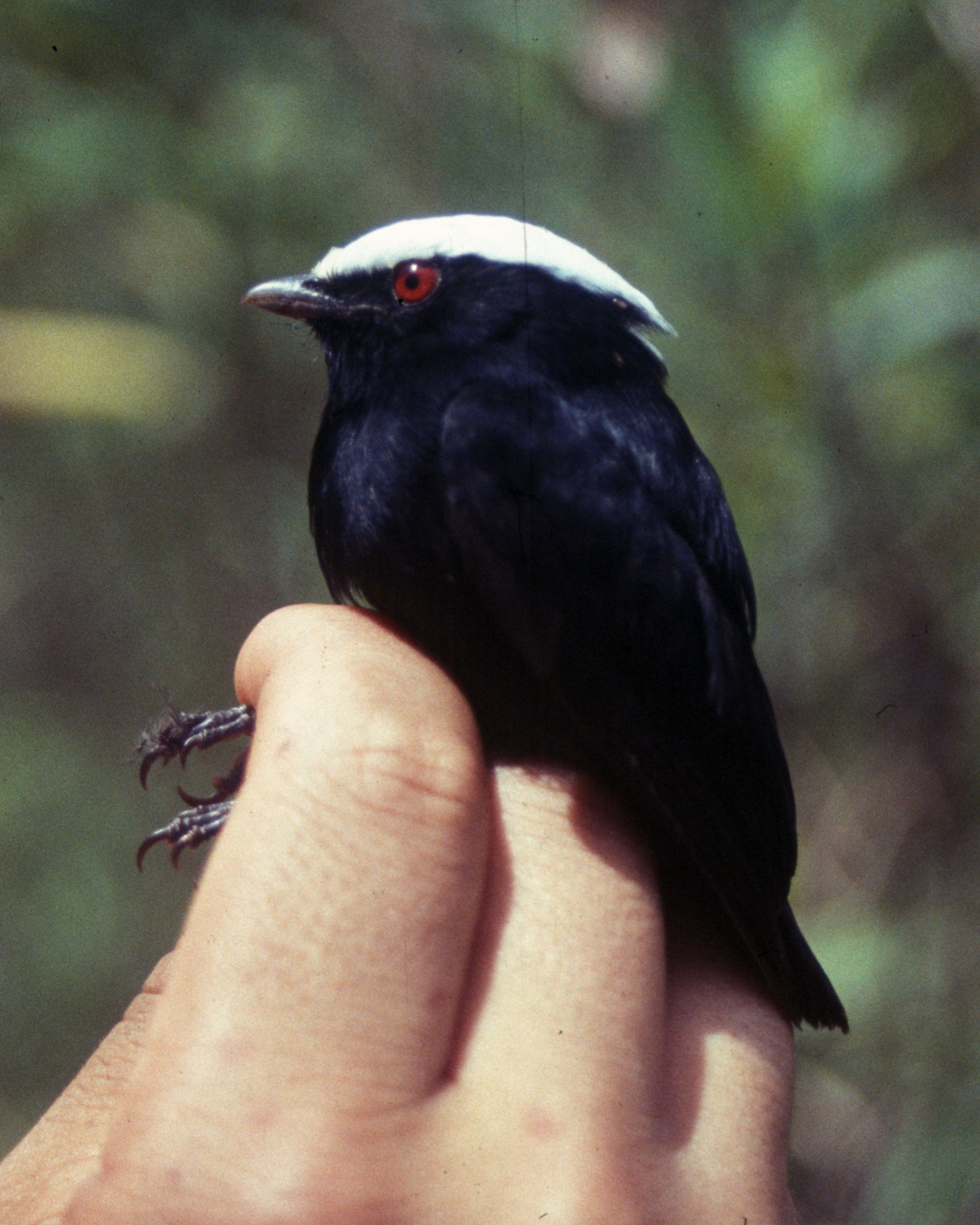 White-crowned Manakin (Dixiphia pipra), male from Ecuador